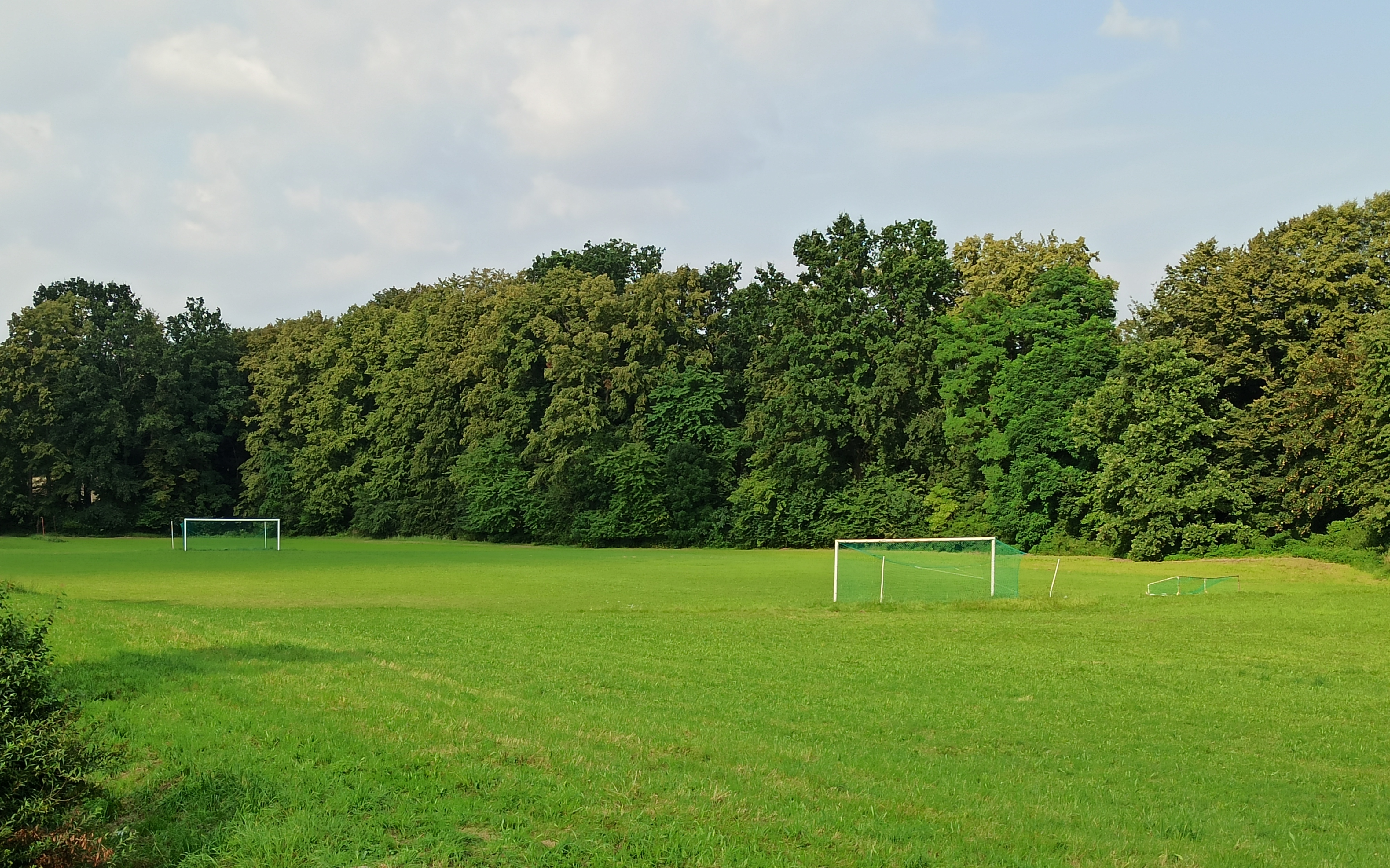 Czyżowice, Opole Voivodeship football pitch, Poland.